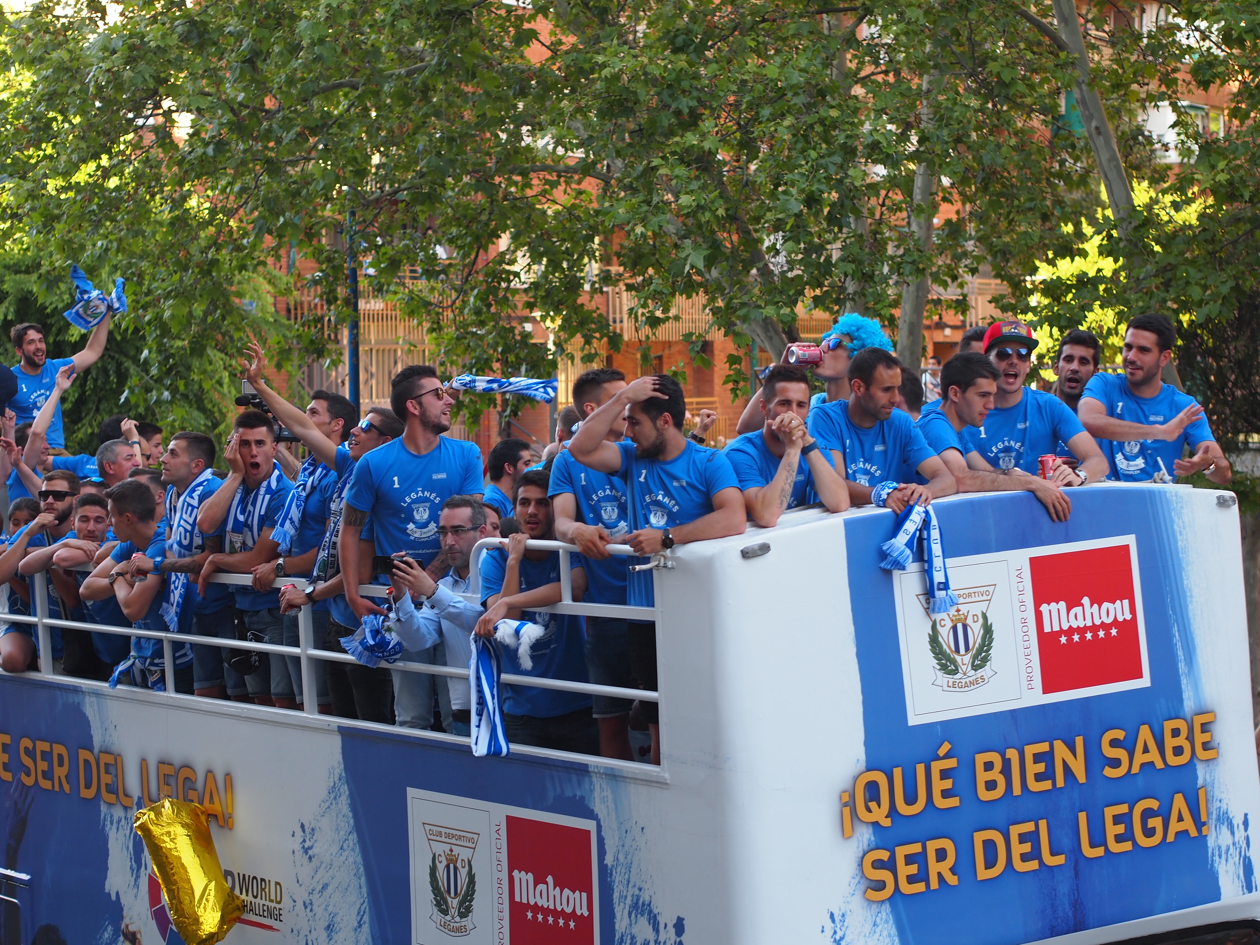 Players of CD Leganés celebrating the promotion to Primera División in Leganés. 5th June 2016